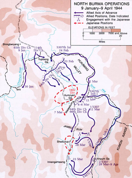 North Burma Operations 9 January - 9 April 1944